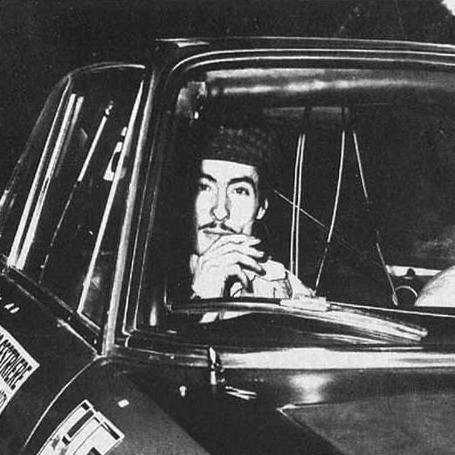 Italian co-rally driver Daniele Audetto on a Lancia Fulvia 1.6 Coupé HF at the start of Sanremo-Sestriere - 1971 Rallye Italy.